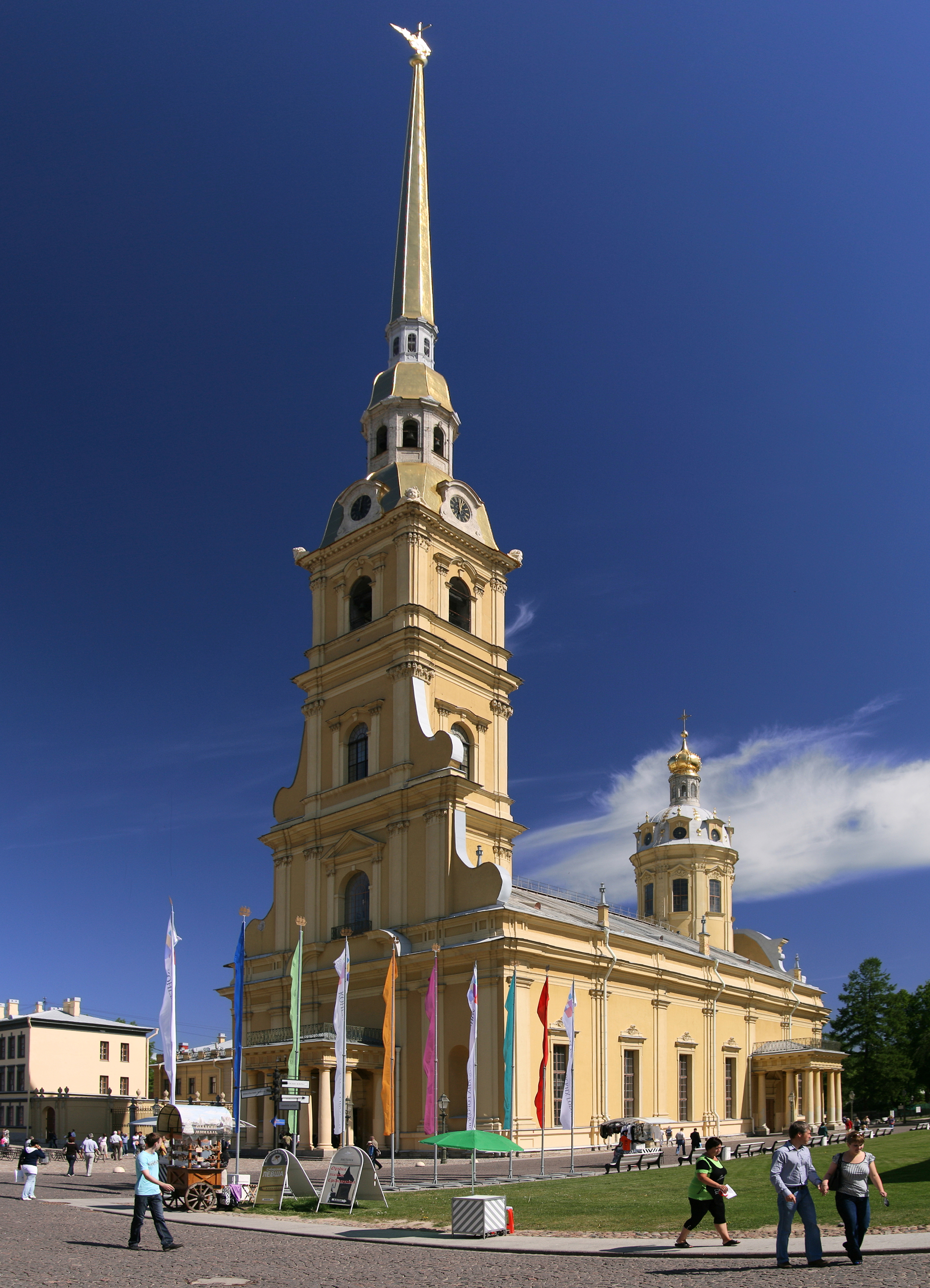 Saint Peter & Paul Cathedral, Peter & Paul Fortress, Saint Petersburg